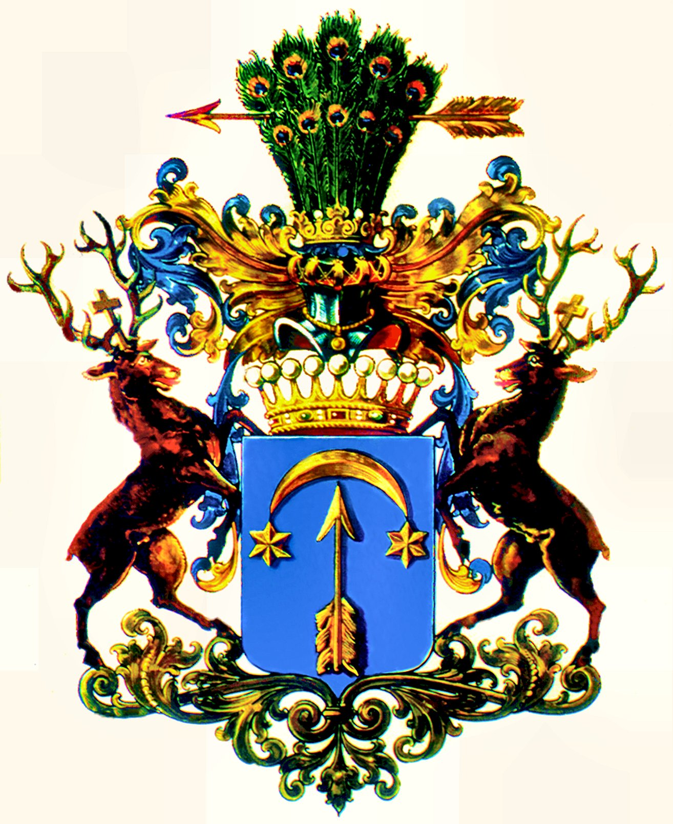 Coat of arms of the counts Wassilko von Serecki. Depiction as shown in the patent of nobility of 1918.